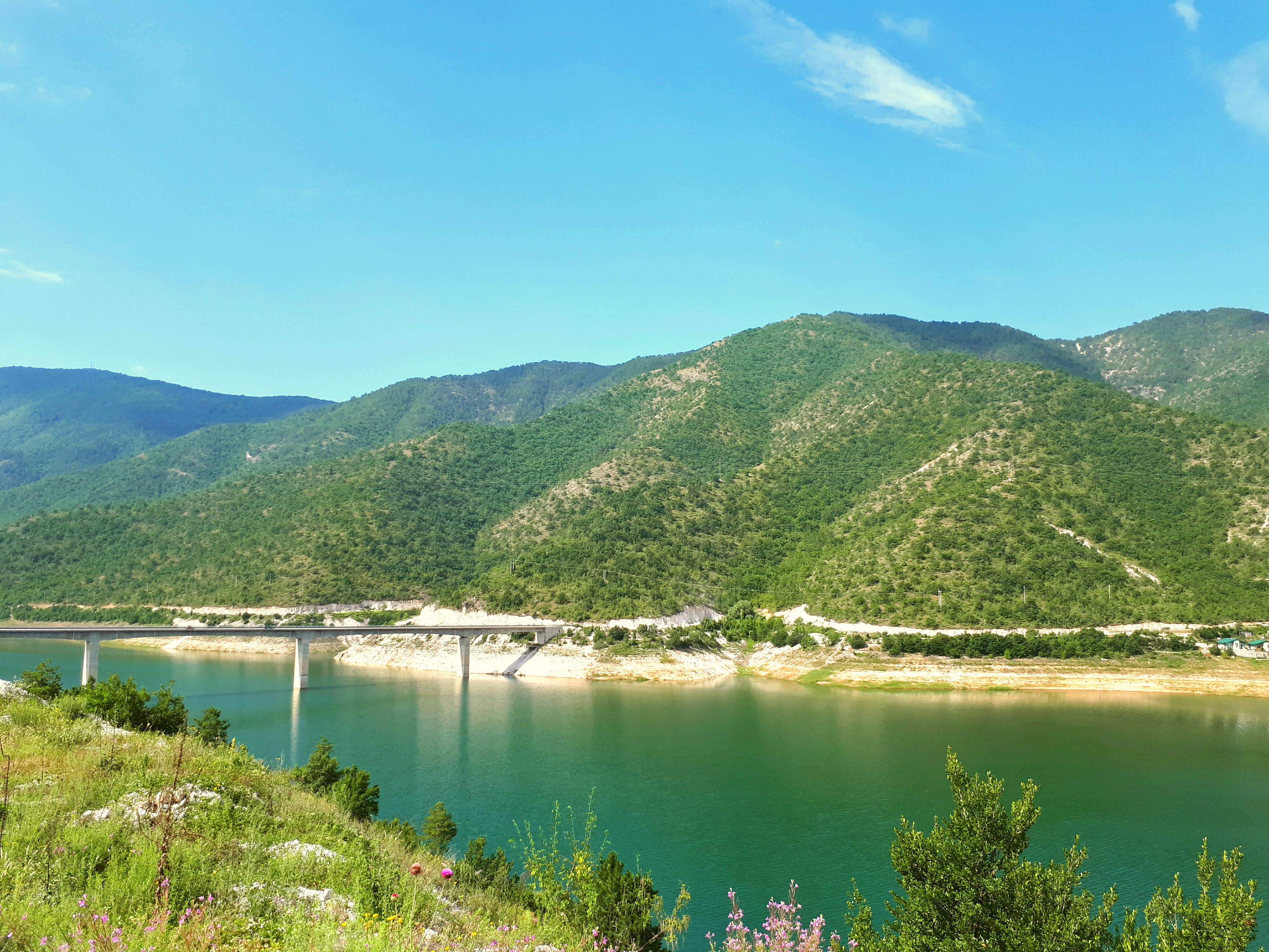 Blizansko Bridge and Lake Kozjak